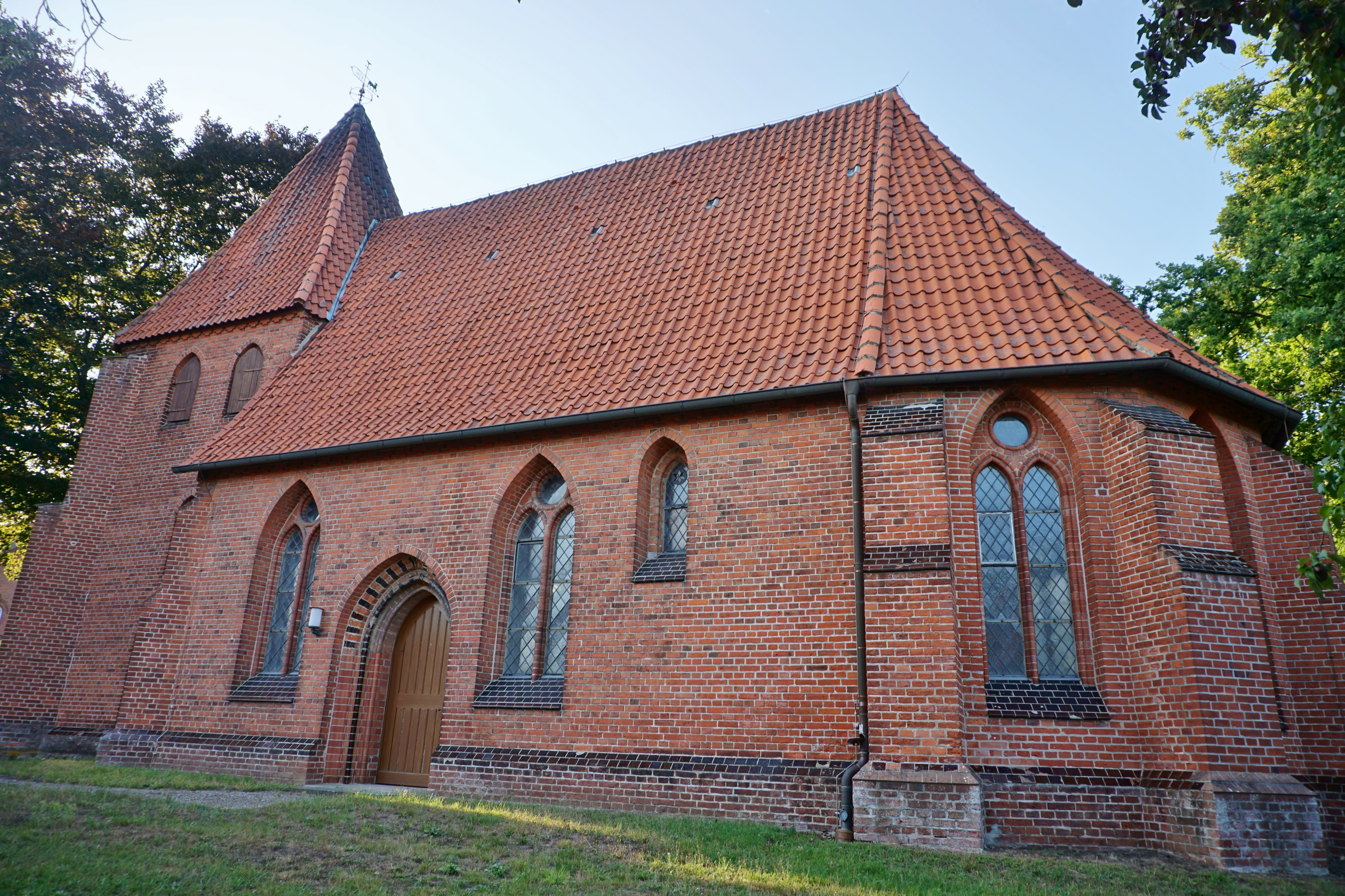 Chapel of Our Lady in Riestedt a district of Uelzen in Lower Saxony. View from southeast.